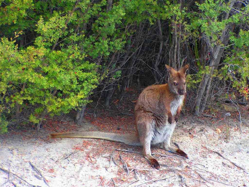 Bennett's Wallaby (Macropus rufogriseus rufogriseus), in Freycinet Park, Tasmania